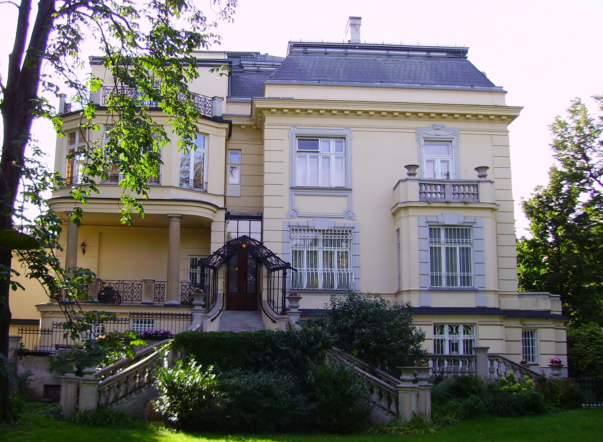 Emmerich Kálmán's residence in Vienna, Hasenauerstrasse 29, 1934-1938